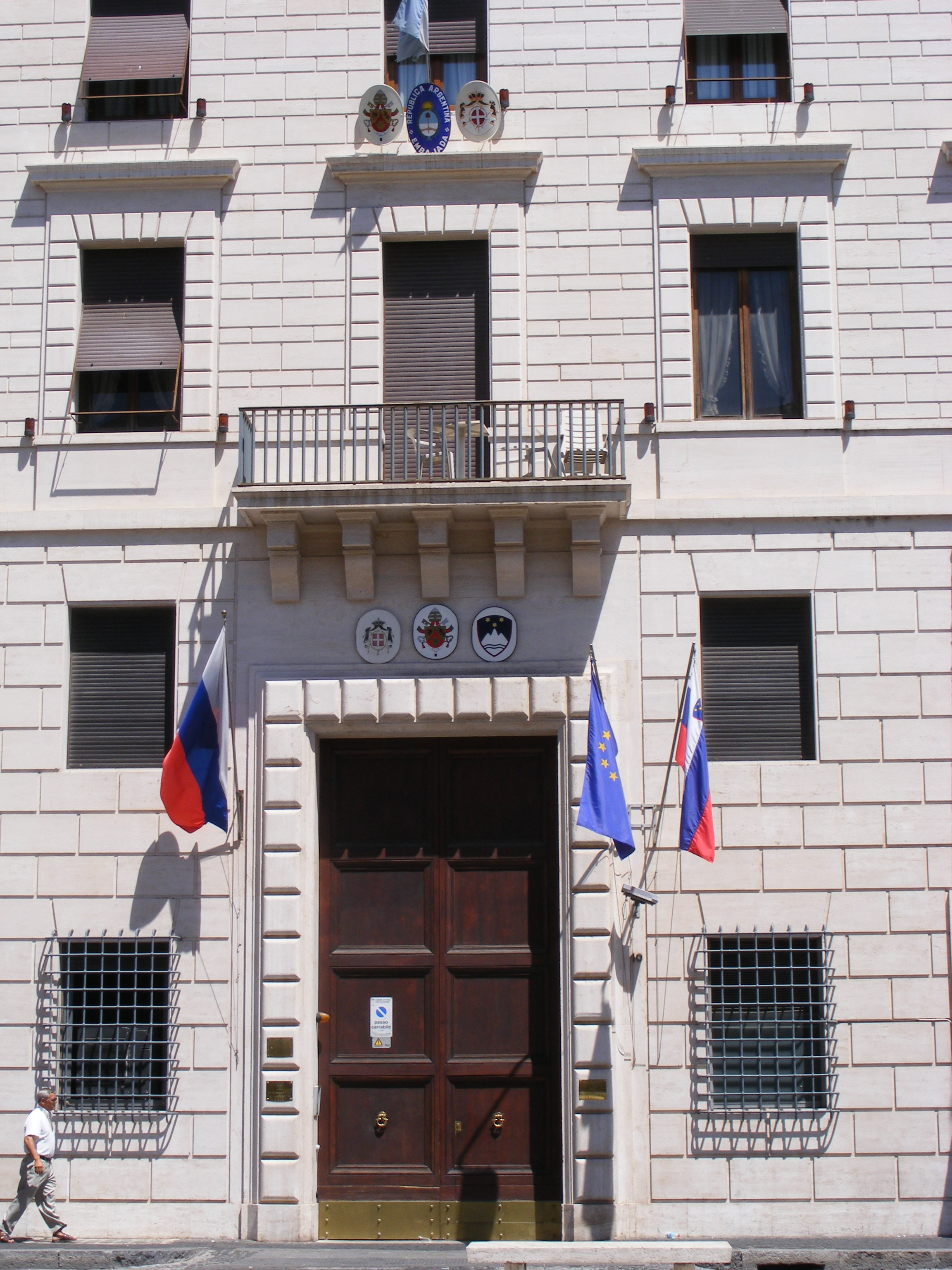 Slovenian and Russian embassies to the Holy See.